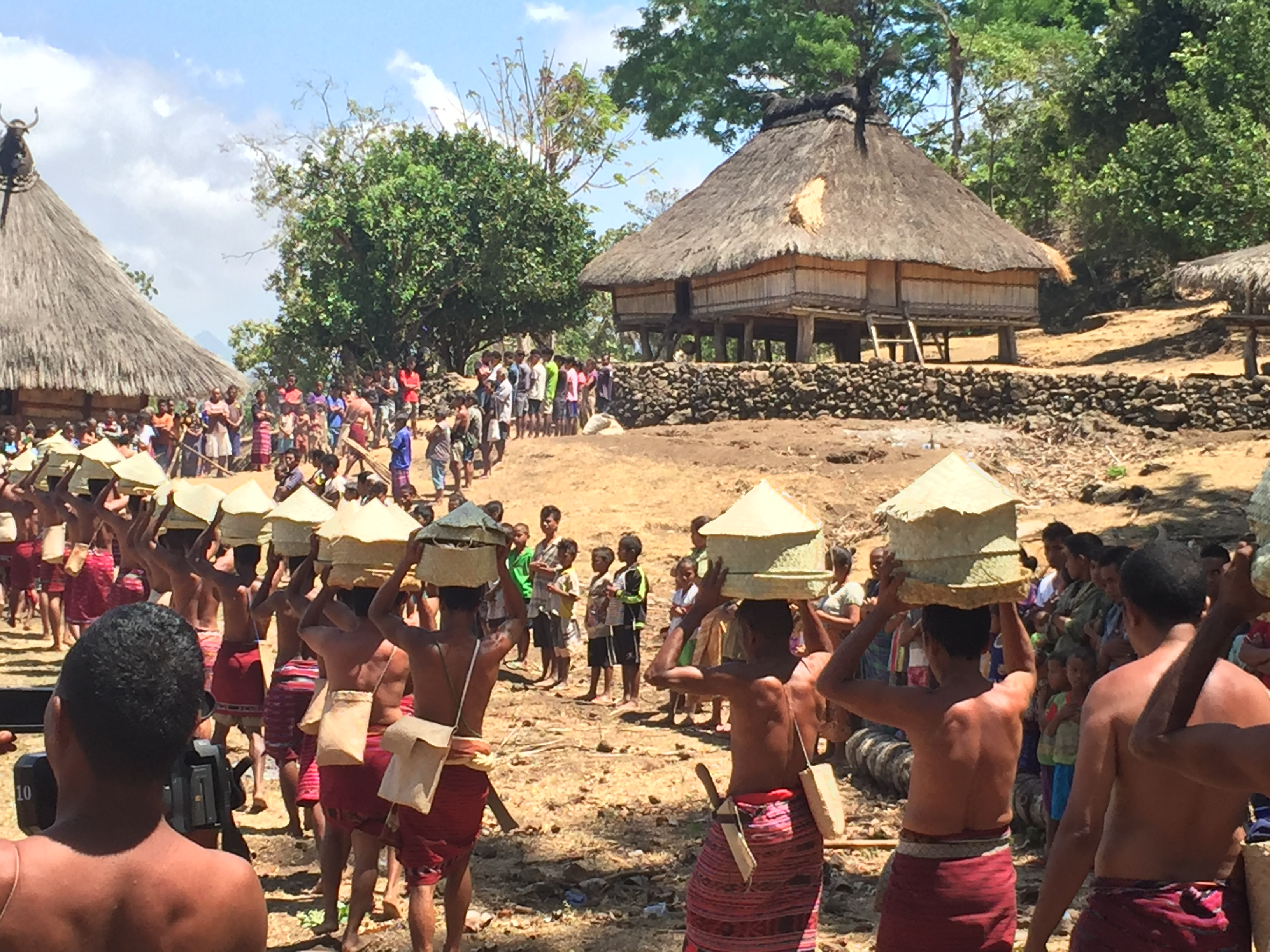 Baha Liurai. Return to the village